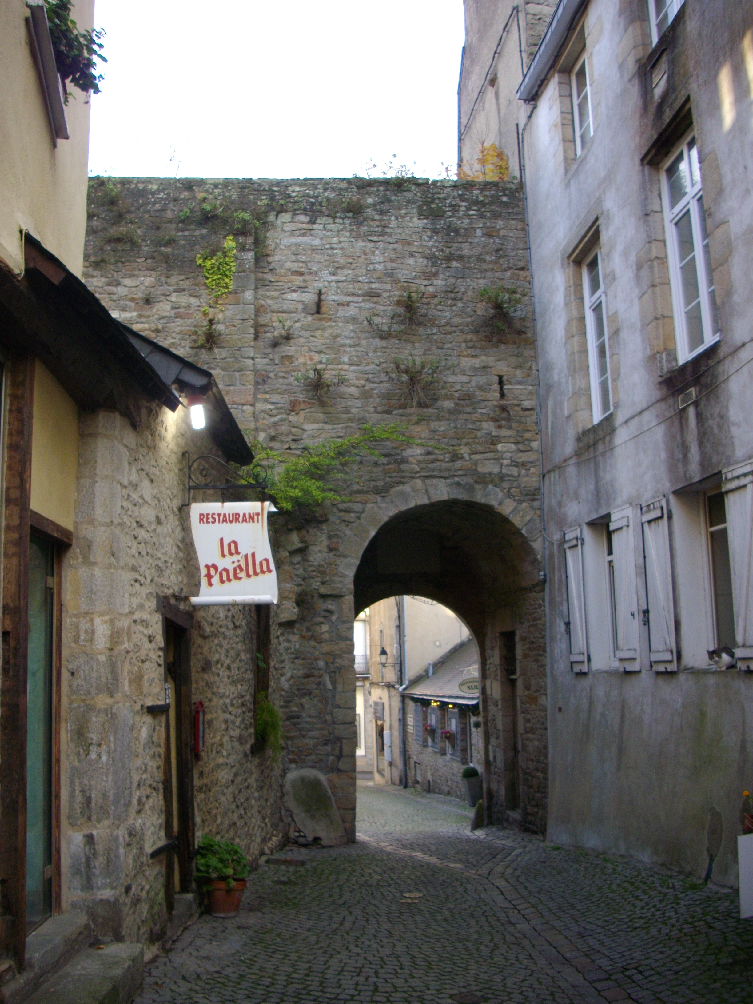 Saint-Jean gate, seen from the town center, in Vannes (Morbihan, France)